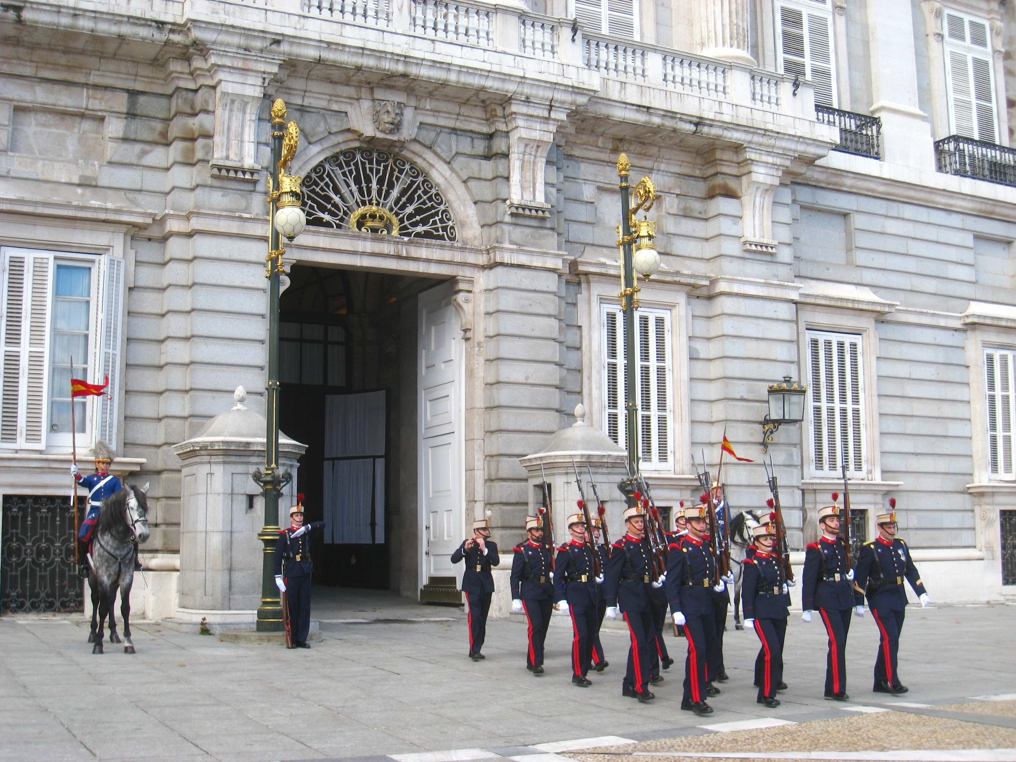 Changing of the Guard, Royal Palace of Madrid, Spain. I took this photograph.